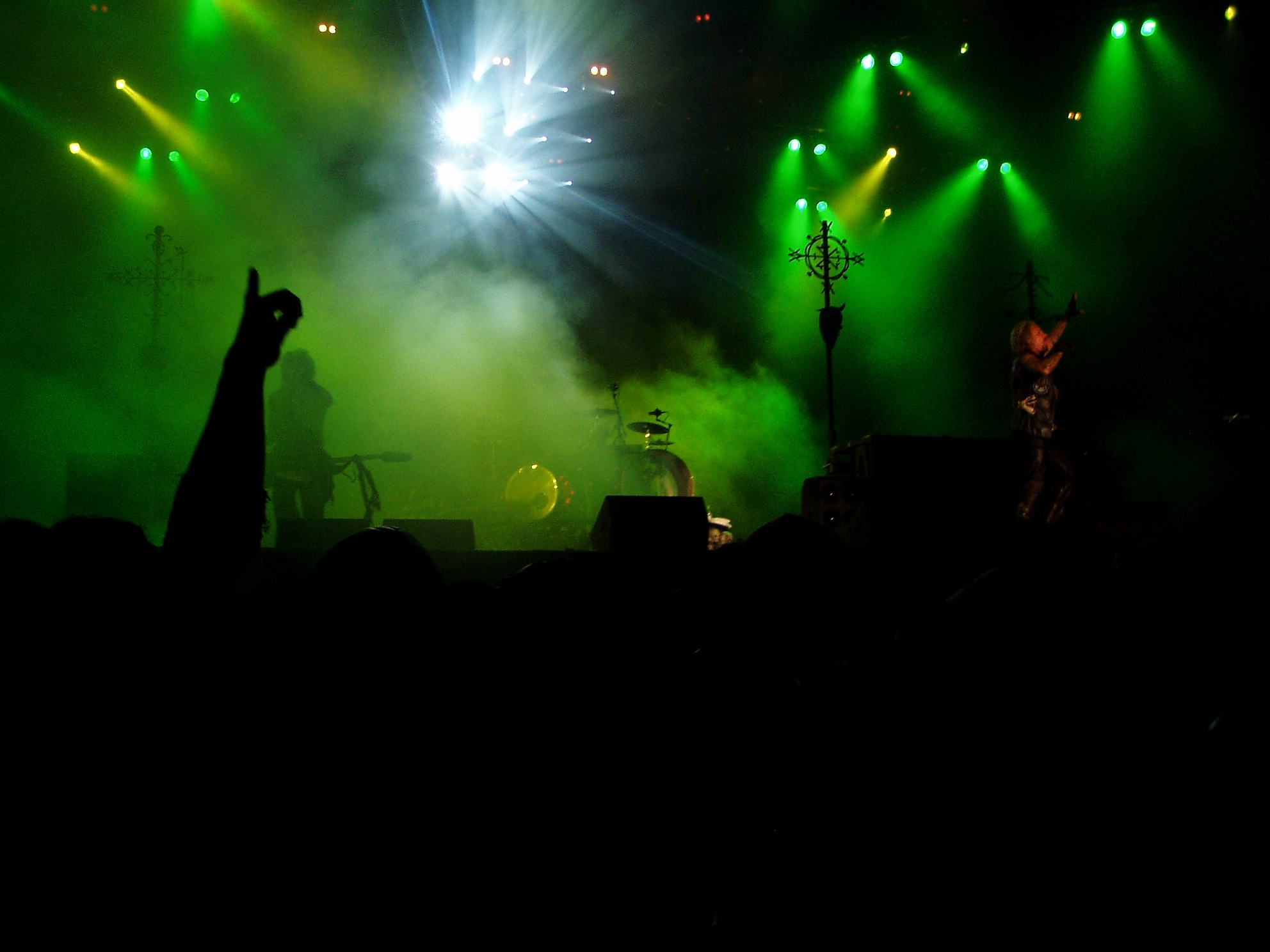 I Mötley Crüe al Gods of Metal 2007